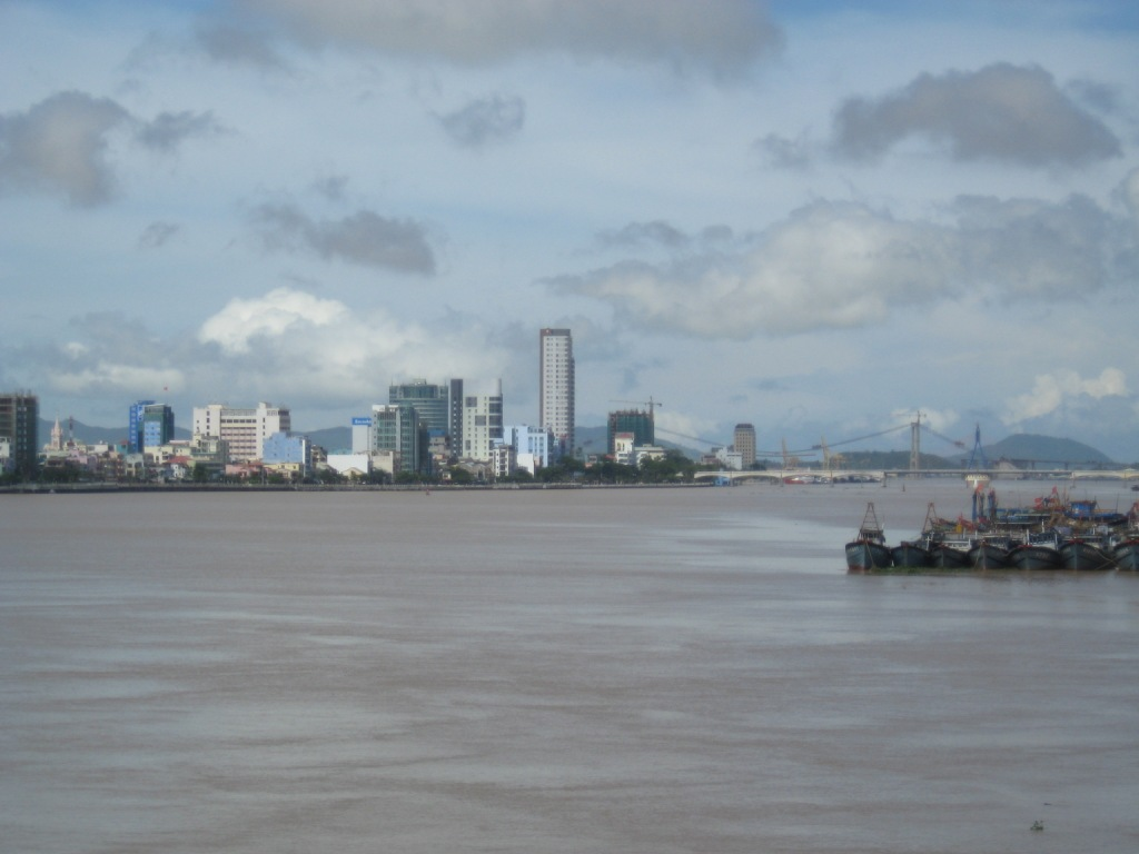 Danang skyline